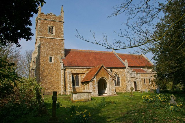 St Stephen Wigbrough This is the church of St Stephen the Martyr in Wigbrough. It has two main claims to fame its tower was destroyed in the Great Colchester Earthquake of 1884 The one in the picture was rebuilt in 1885. Also in WW1 Zeppelin LZ33 was shot down by ground fire and crashed at New Hall Farm Little Wigbrough one of the structural ribs of the airship hung in the Church until very recently. I am not sure why it has been removed.